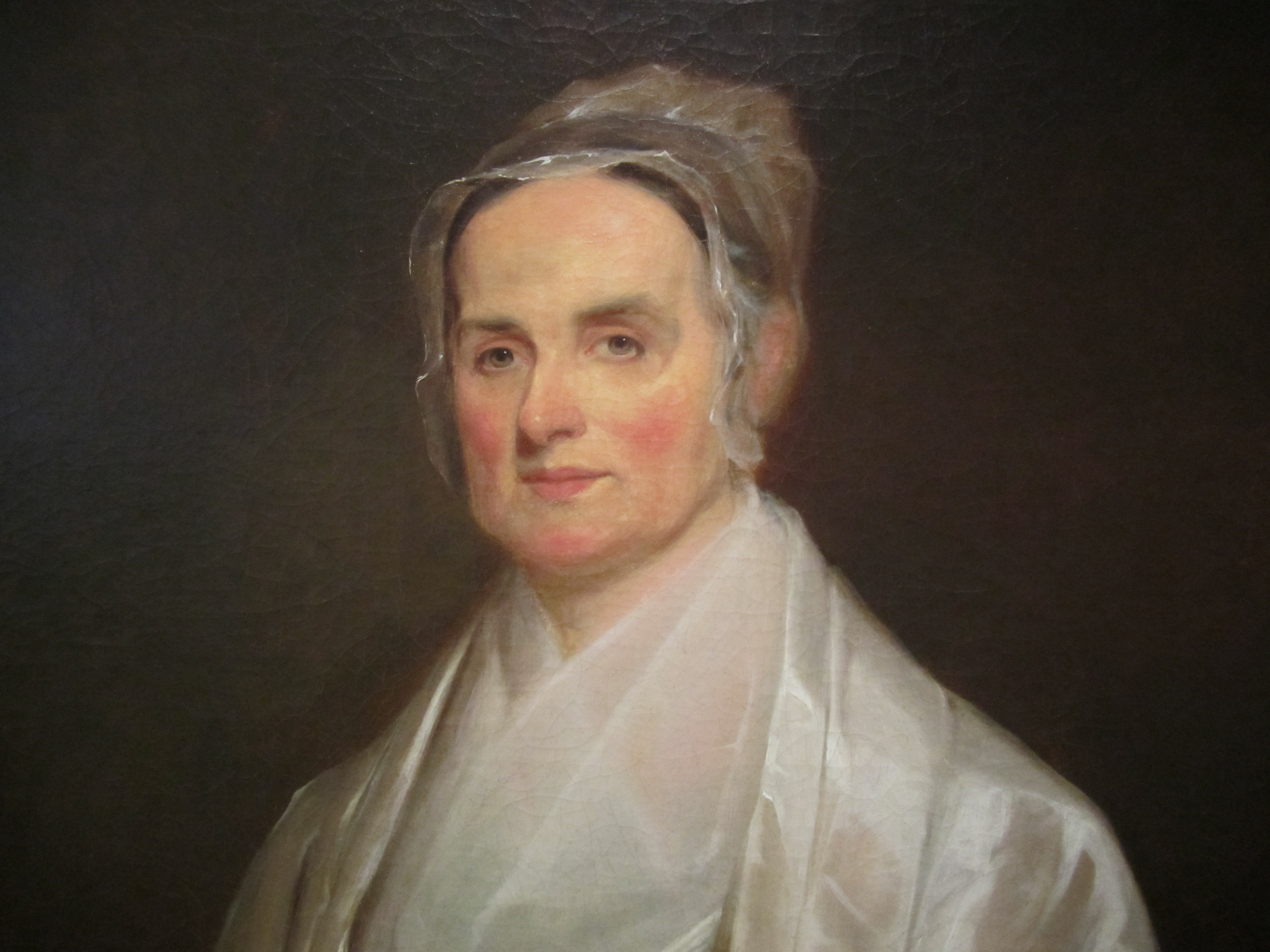 I took photo of Lucretia Mott at National Portrait Gallery with Canon Camera. Public domain. U.S. government property